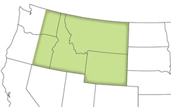 A Map of The American Redoubt Region. Note that per the source page's copyright note, it is Share-Alike 3.0 Licensed